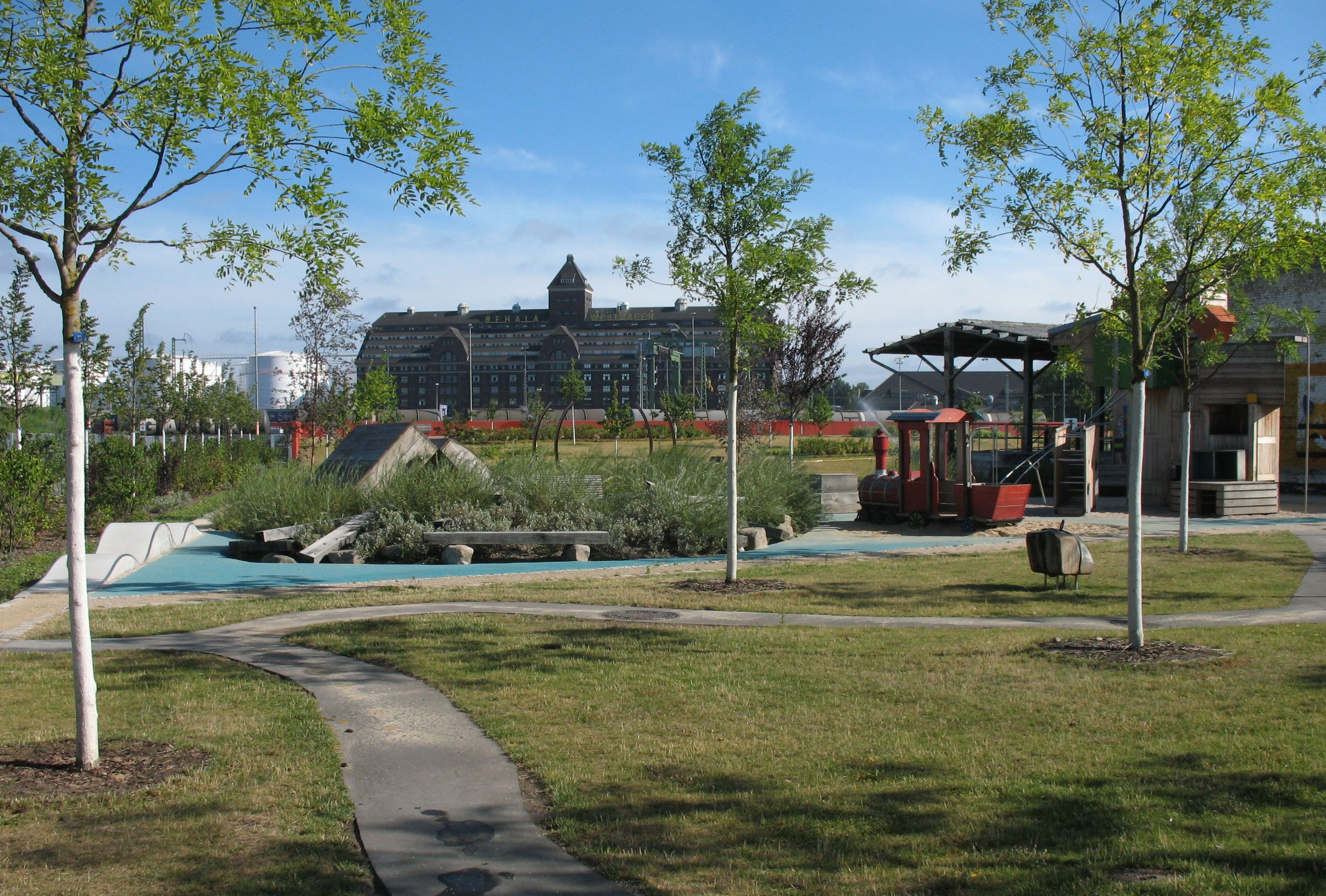 Park in Berlin-Moabit, Germany